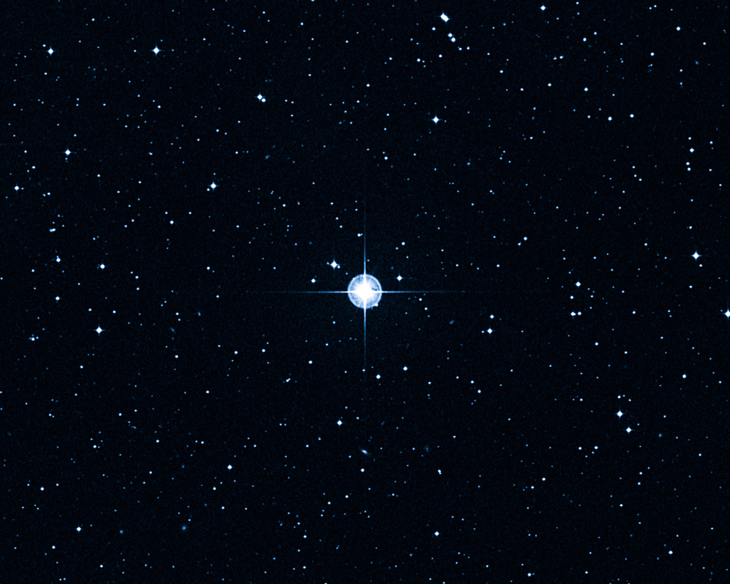 This is a Digitized Sky Survey image of the oldest star with a well-determined age in our galaxy. The very old star, catalogued as HD 140283, lies over 190 light-years away. The NASA/ESA Hubble Space Telescope was used to narrow the measurement uncertainty on the star's distance, and this helped to refine the calculation of a more precise age of 14.5 billion years (plus or minus 800 million years). The star is rapidly passing through our local stellar neighborhood. The star's orbit carries it through the plane of our galaxy from the galactic halo that has a population of ancient stars. The Anglo-Australian Observatory (AAO) UK Schmidt telescope photographed the star in blue light.